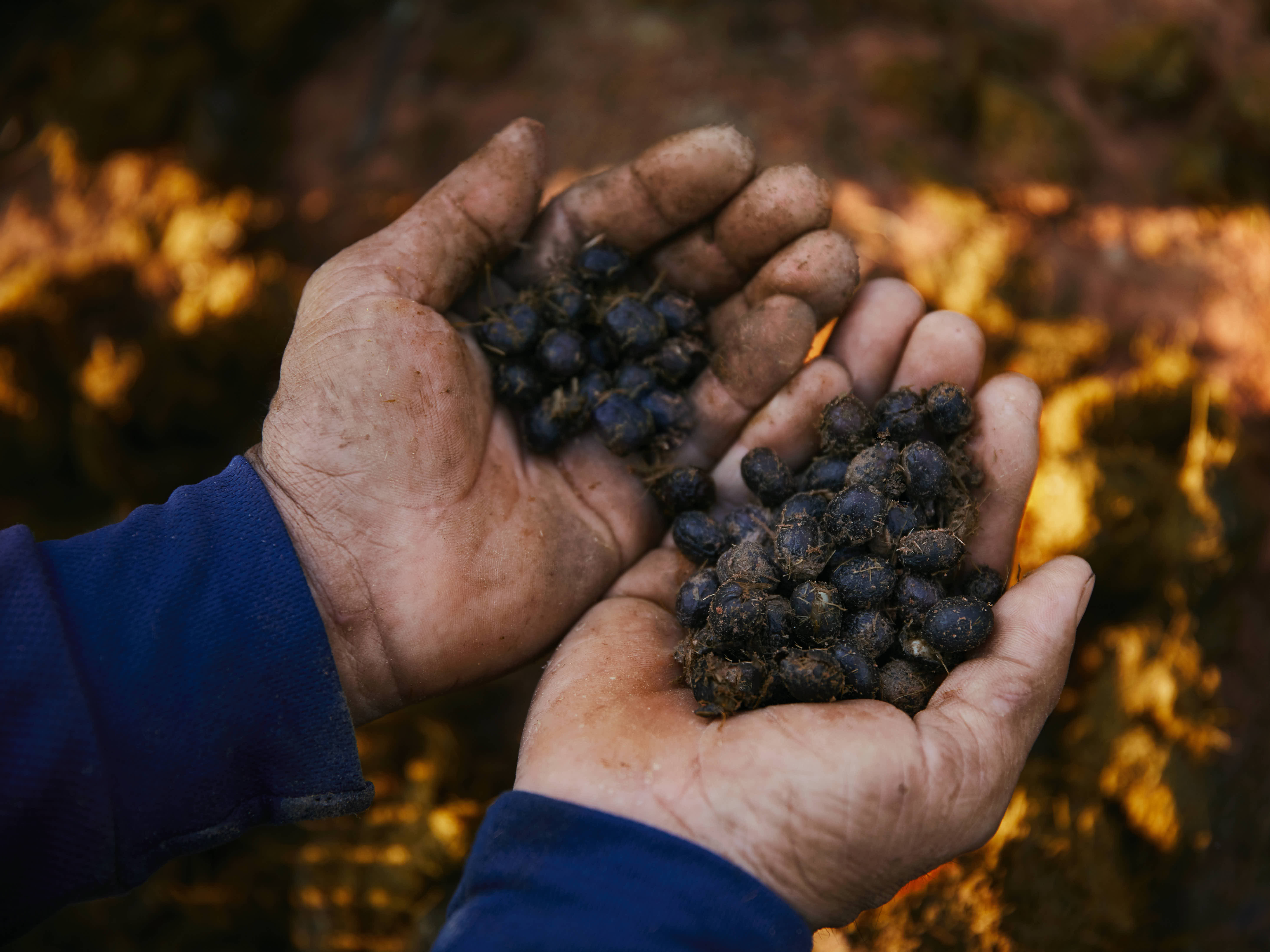 Black Ivory Coffee beans, in the process of making the coffee